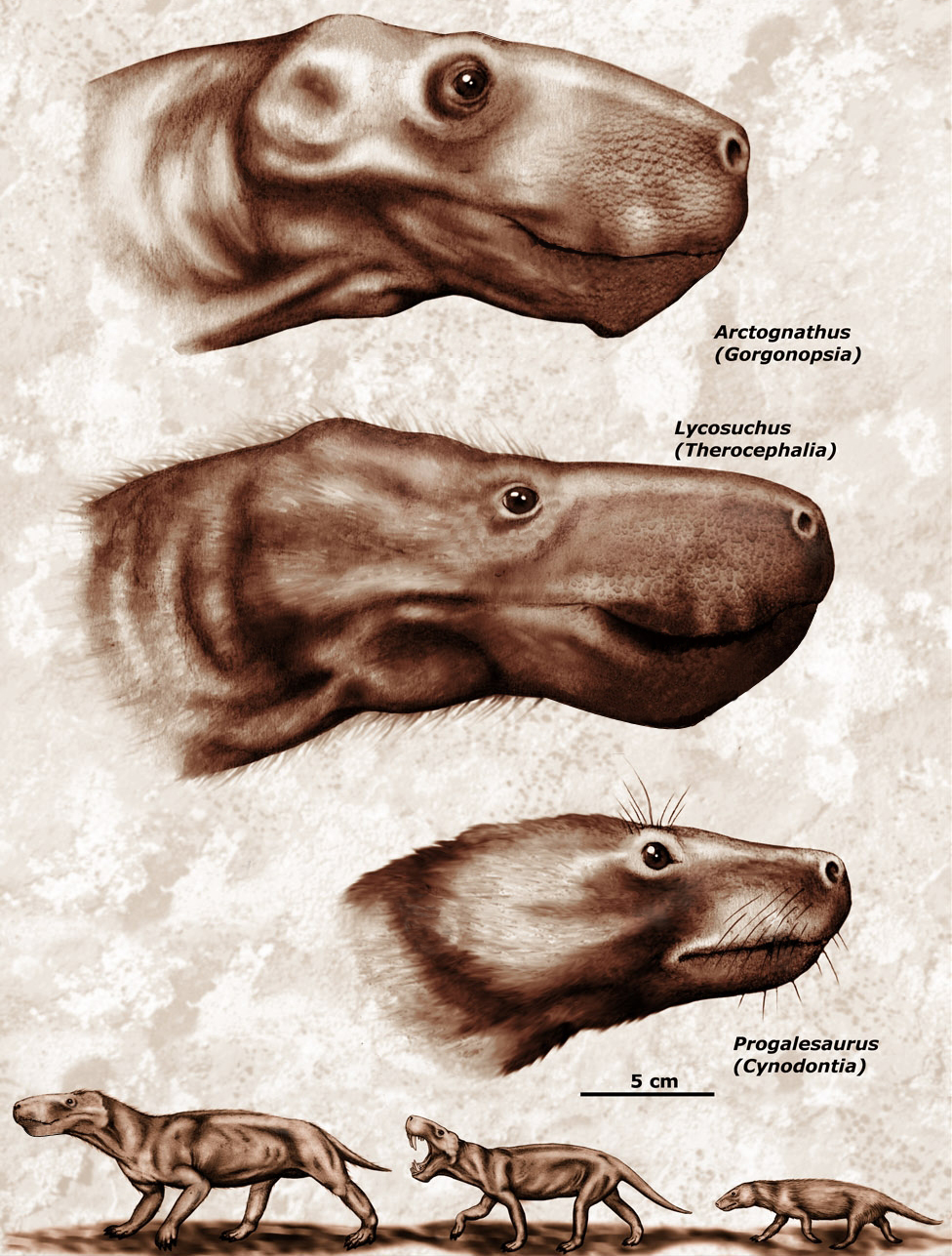 Members of Theriodont clade, in scale, Arctognathus, Lycosuchus, Progalesaurus.